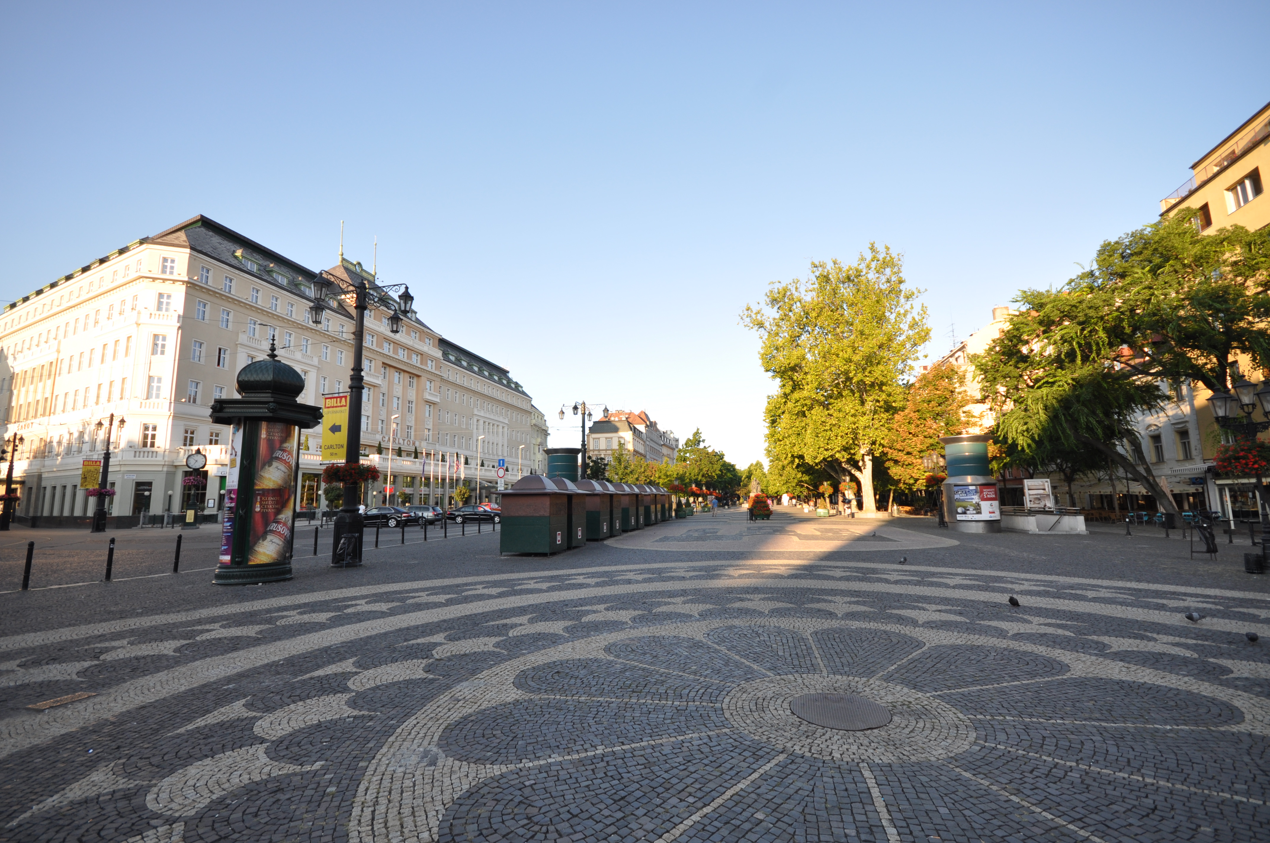 Hviezdoslavovo námestie (literally Hviezdoslav Square) is one of the best-known squares in Bratislava. It is located in the Old Town, between the New Bridge and the Slovak National Theatre. The square is named after Pavol Országh Hviezdoslav. History This square existed in the Kingdom of Hungary for 1000 years. Many of medieval houses were built here. Northern part of this square there are Kőszeghy, Eszterházy,Széchen, Stáhl, Záborszky, Pálffy, Sulkovszky Maldeghem, Malatinszky, Werner houses and southern part of square there are Spineger, Gervay, Löw-Palugyay, Kozics, Wigand, Adler, Pollák, Sprinzl houses. The most notable buildings are the Notre Dame cloister and today's Slovak National Theatre which can be found in the eastern part of square. Earlier the most important noblemen sent their daughters to learn in this cloister, for example: Pálffy, Forgách, Harrach, Lichtenstein. On 17 March 1848 the Hungarian national leader, Lajos Kossuth proclaimed from Hotel Zöldfa (literally : Greenwood)'s balcony: "Hungary's reborn" to the assembling mass at this square because Ferdinand V signed March laws at the Primate's Palace last day. First Hungarian fancing school's practising hall also worked here. Lajos Kossuth, Franz Joseph, Albert Einstein and Alfred Nobel stayed at this hotel too. This hotel was today's Hotel Carlton's place. In 1911 Sándor Petőfi's sculpture was erected opposite today's Slovak National Theatre. However it was unsuccessfully attacked with dynamite after the Czechoslovak army occupied the city in 1918. After this sculpture was boarded over round temporarily until its removal. The square underwent major reconstruction at the end of the 20th century. Before reconstruction, it looked like a small city park; now it looks like a city promenade. On February 24, 2005 US President George W. Bush gave a public speech in Hviezdoslav Square during his visit to Bratislava for the Slovakia Summit 2005 with the president of Russia Vladimir Putin